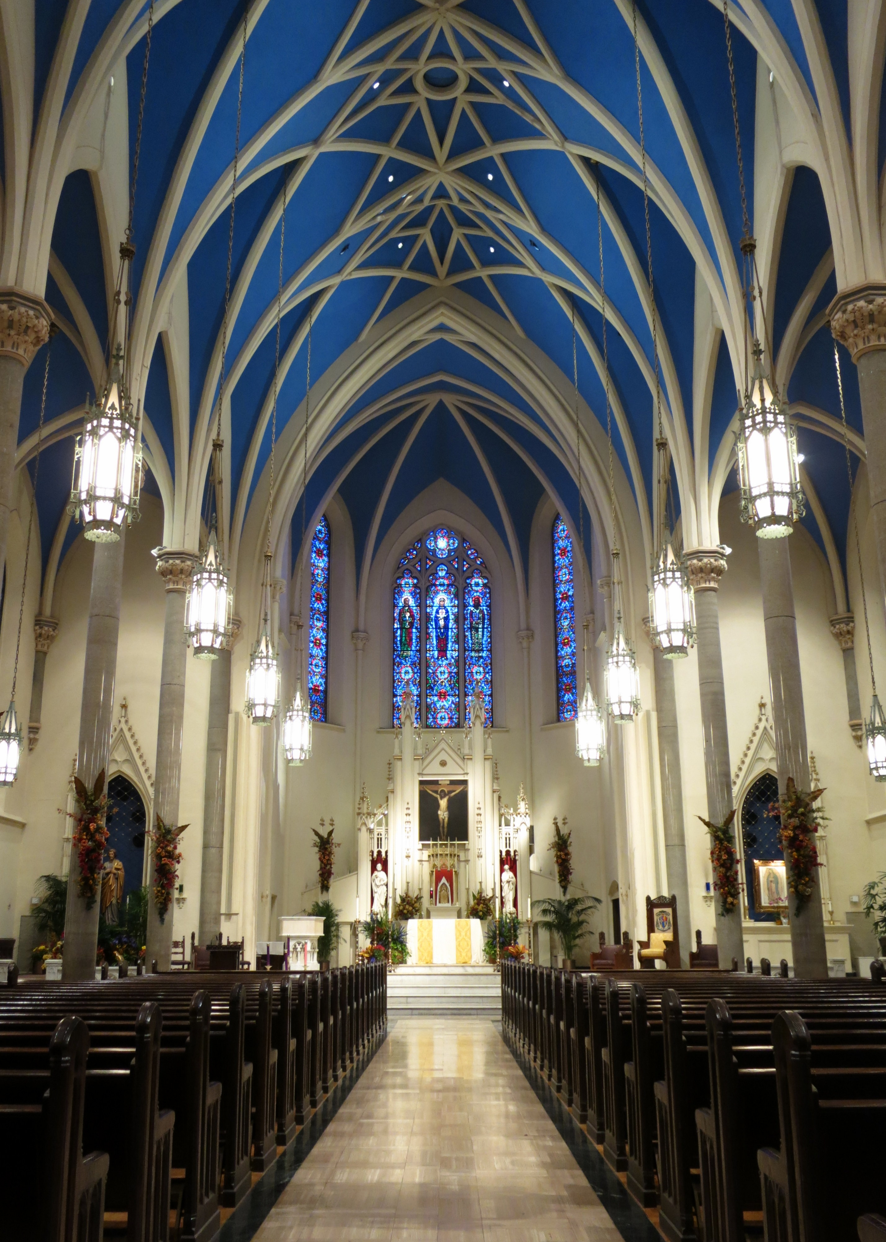 Cathedral of Saint Mary of the Immaculate Conception (Peoria, Illinois) - nave